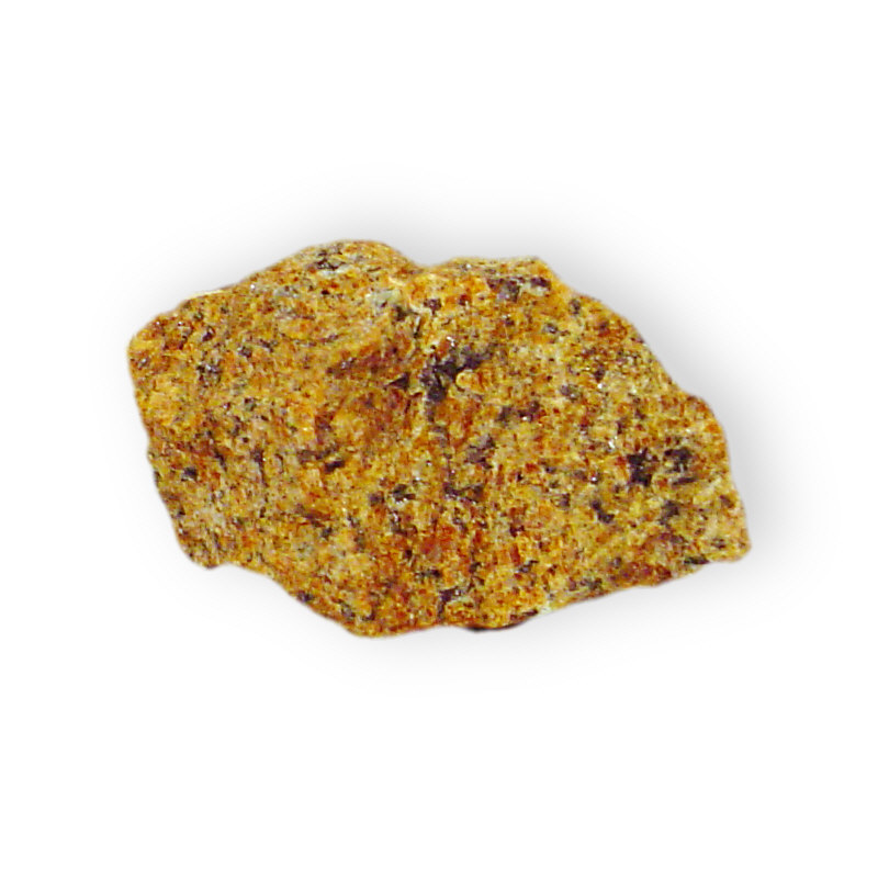 These mineral images are free to use how you wish.